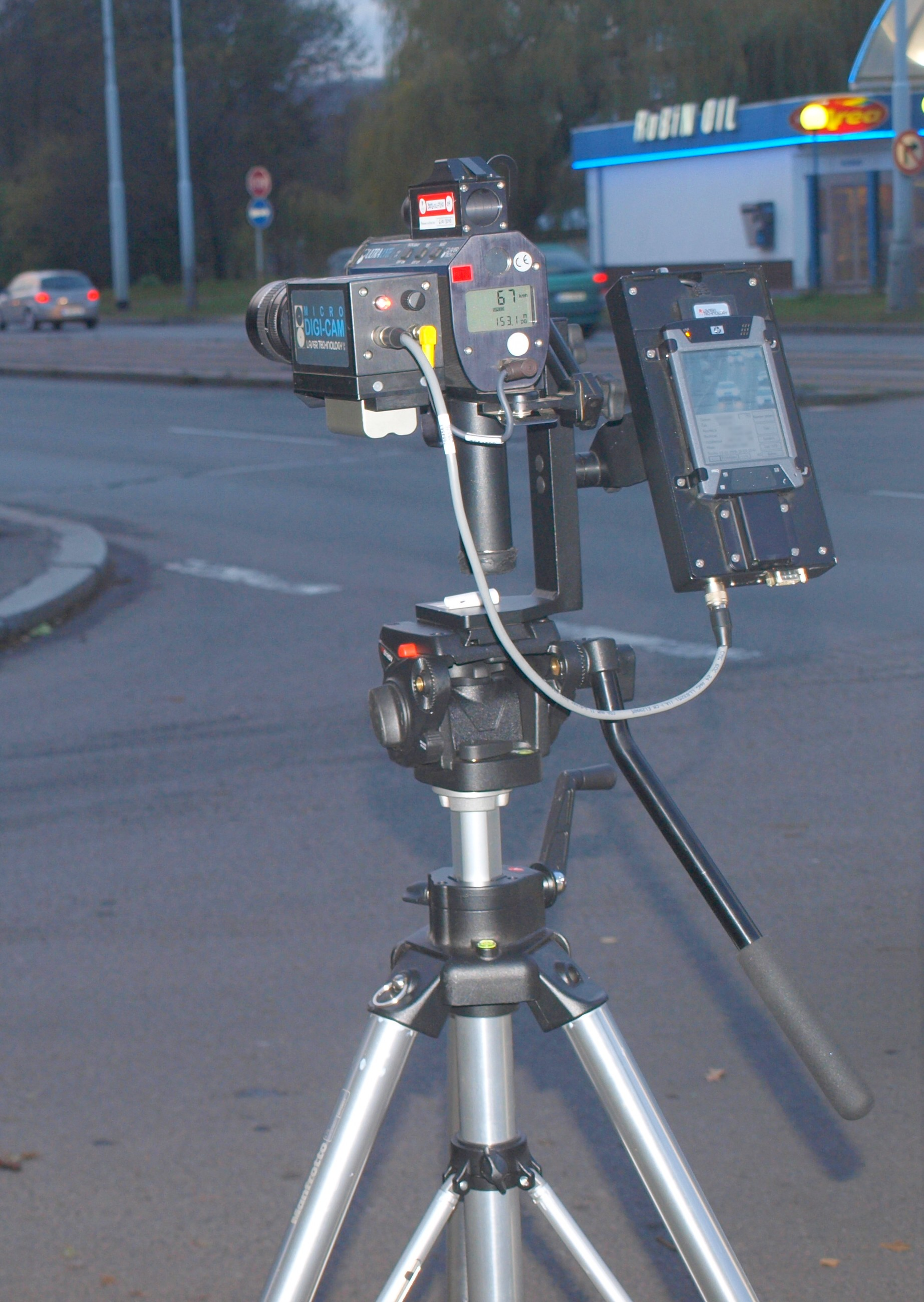 Police radar at Plzeňská street